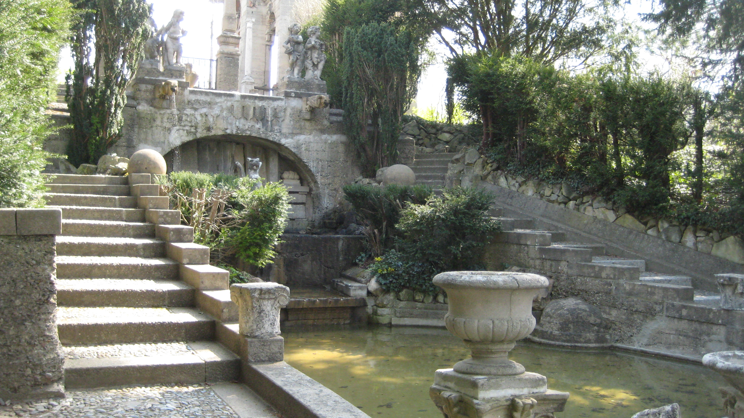 Roseburg (Schloss) Garden